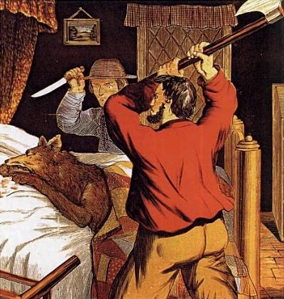 Illustration to a fairy tale "Little Red Riding Hood"